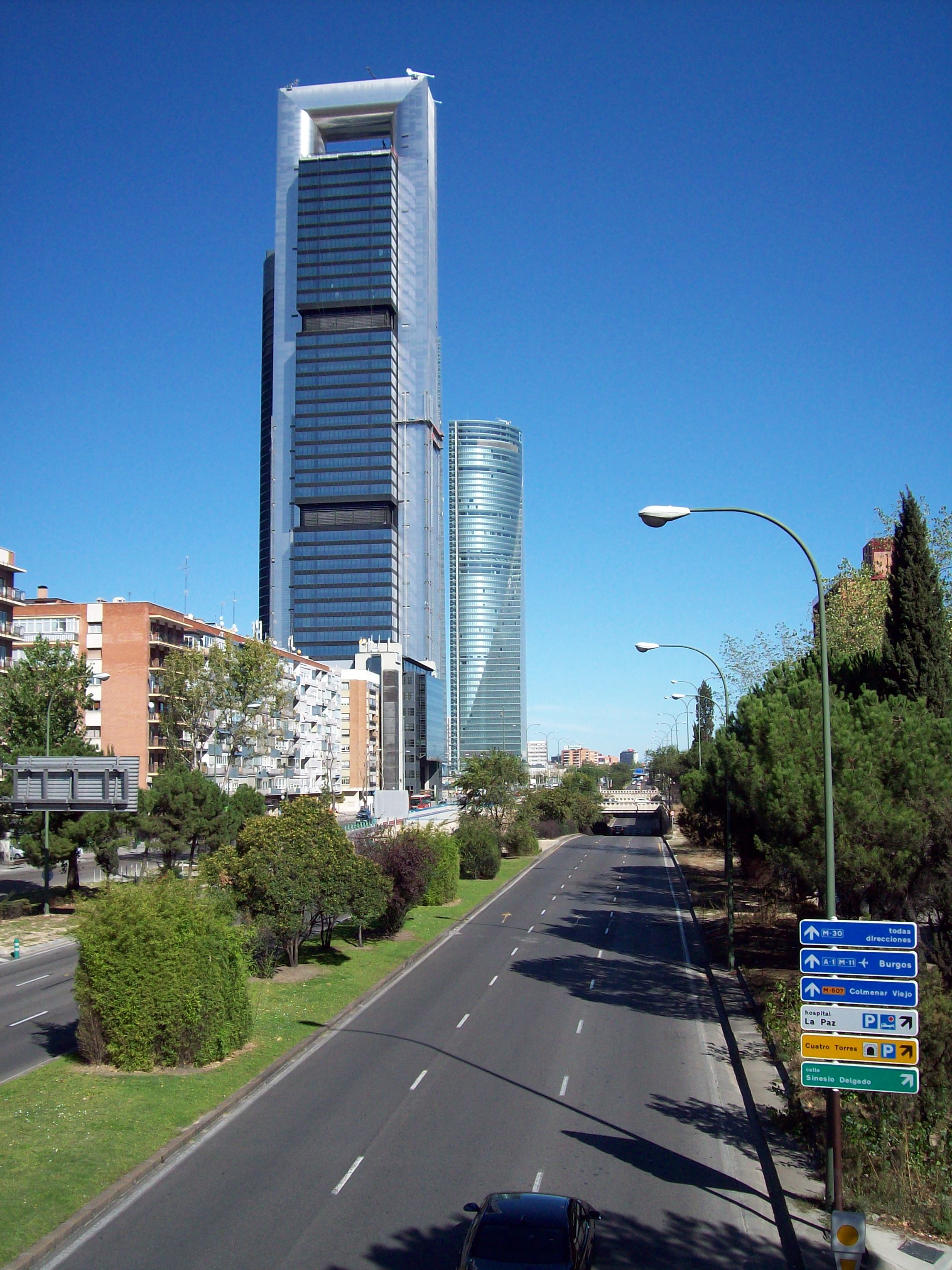 Paseo de la Castellana (avenue) in Madrid (Spain). In the background, Cuatro Torres Business Area (CTBA).